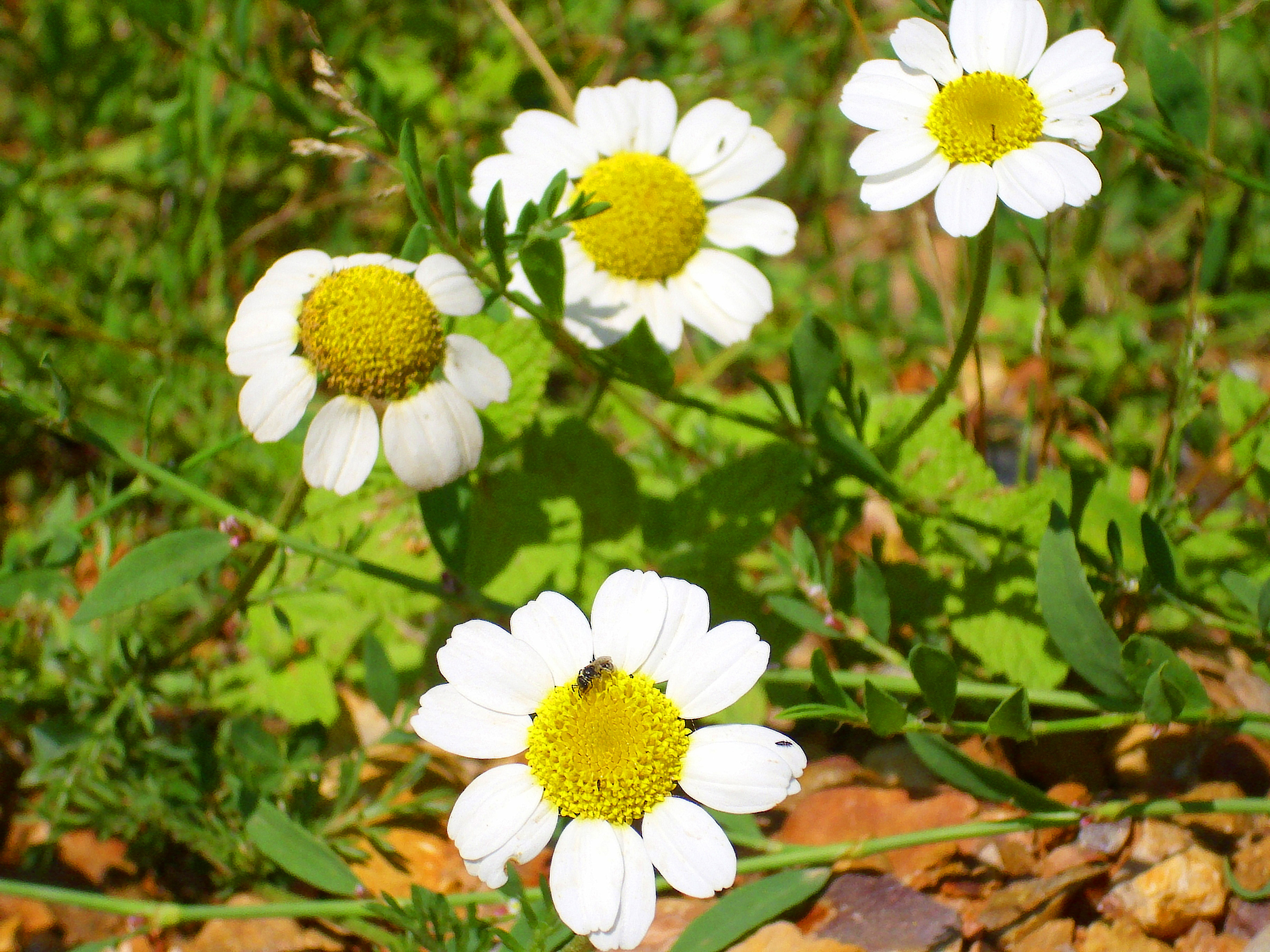 Anthemis cotula habit, Sierra Madrona, Spain